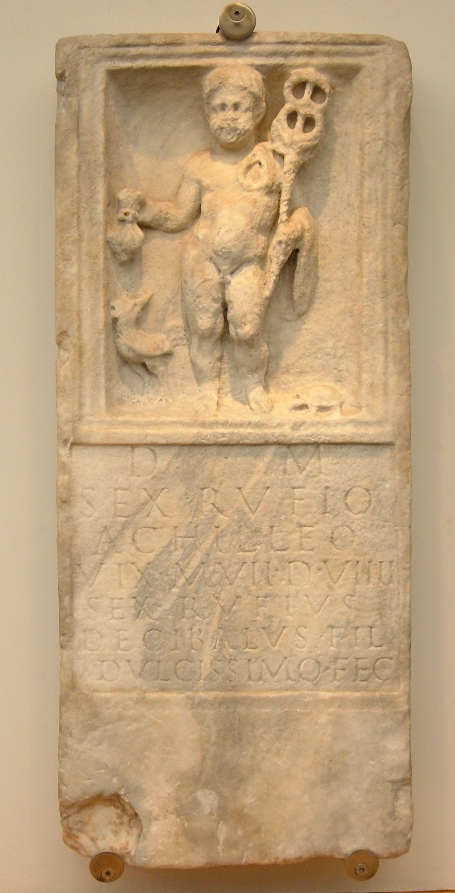 Sepulchral monument for Sextus Rufius Achilleus, who lived seven months and nine days. Sextus Rufius Decibalus, whose lovely son he was, made this. CIL VI, 25572